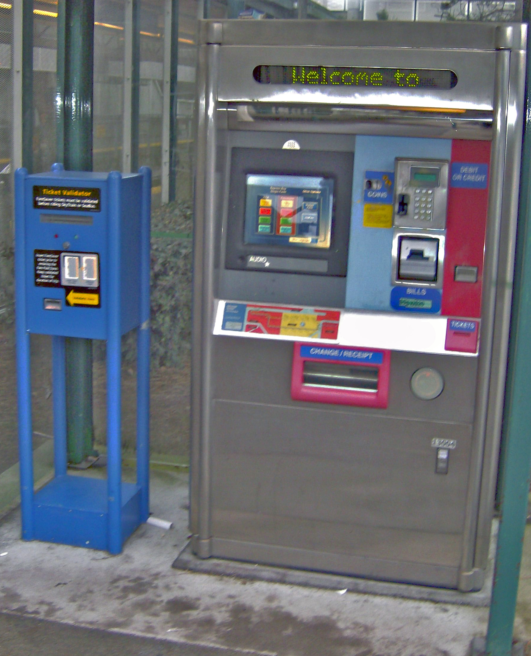 A sticket vending machine on the SkyTrain system.